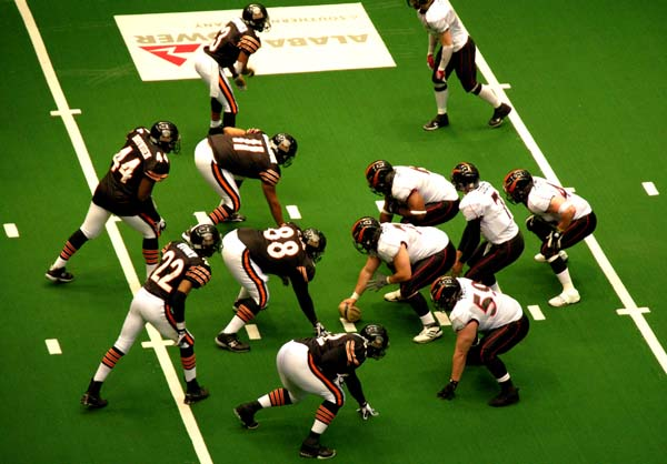 The Birmingham Steeldogs line up on defense against the Louisville Fire on offense in the BJCC Arena in Birmingham, Alabama, USA.